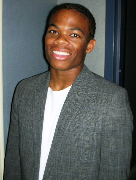 Paul James at the Tribeca Film Festival, in 2006.